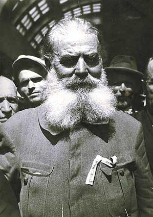 One of the voivodas of IMRO and leader of ITRO - Tane Nikolov in Skopie (1941).